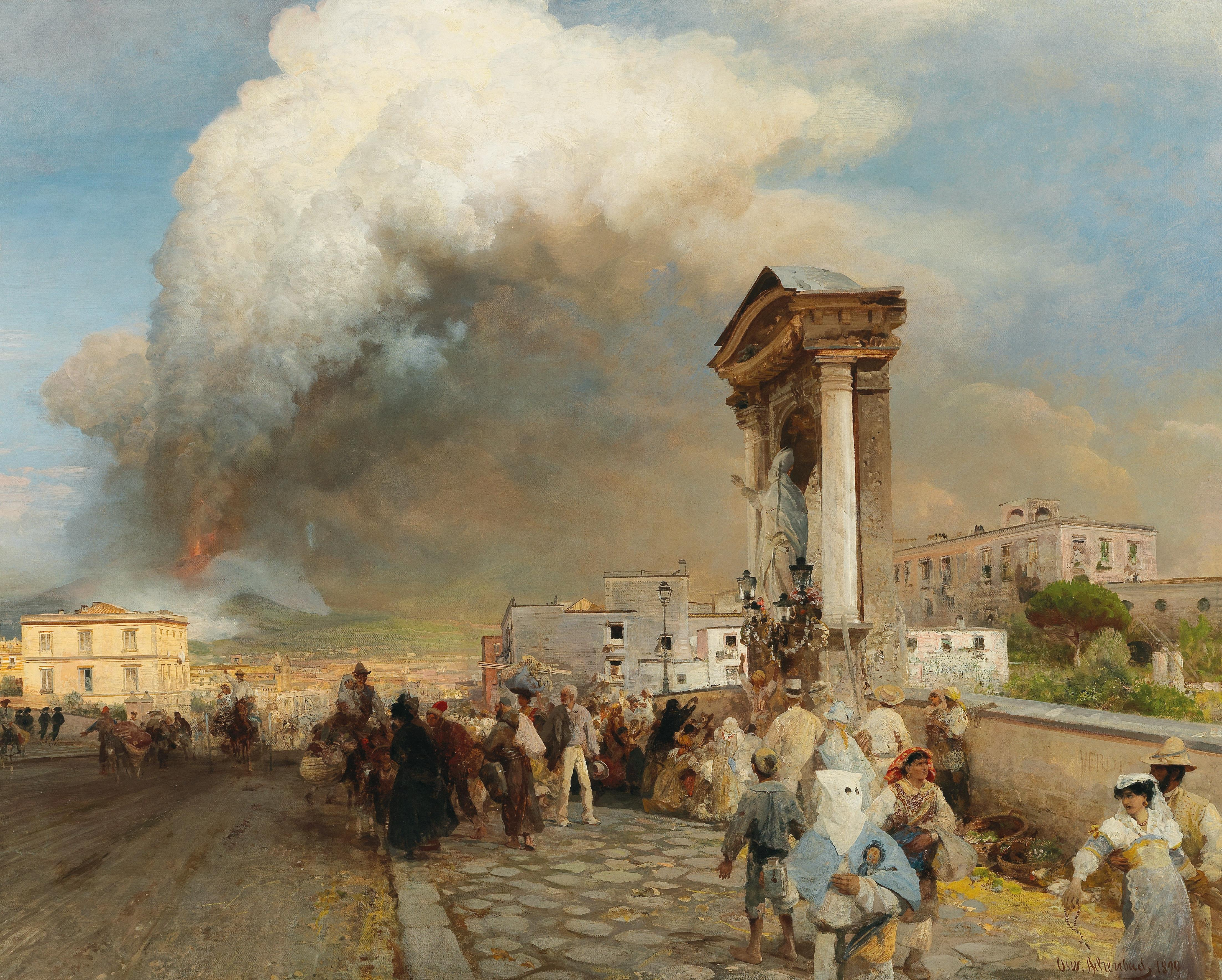 Naples at the eruption of Vesuvius in 1872